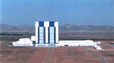 Chinese Jiuquan Satellite Launch Center